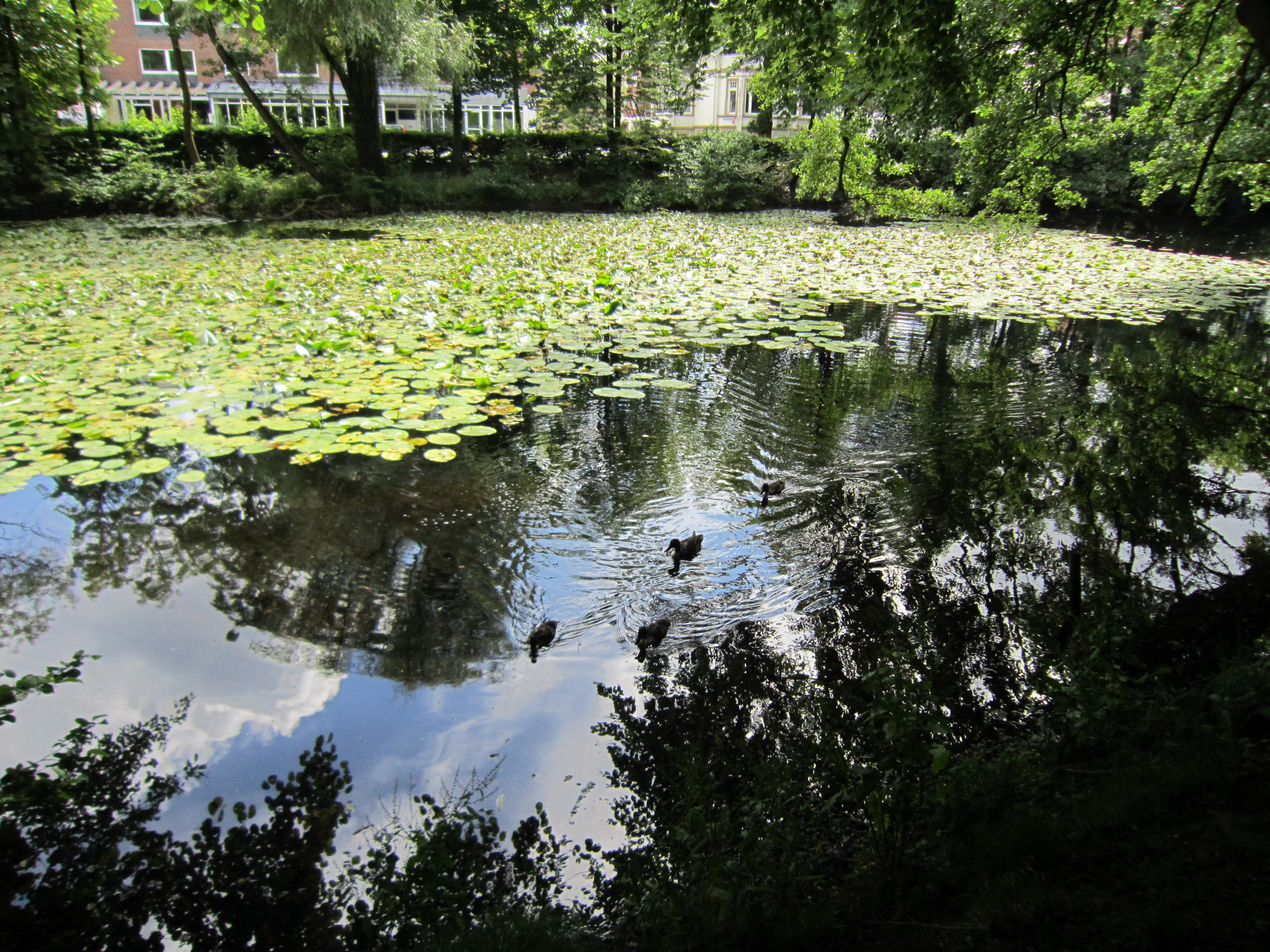 Horse pool in Eversten Holz (Oldenburg/Oldenburg)